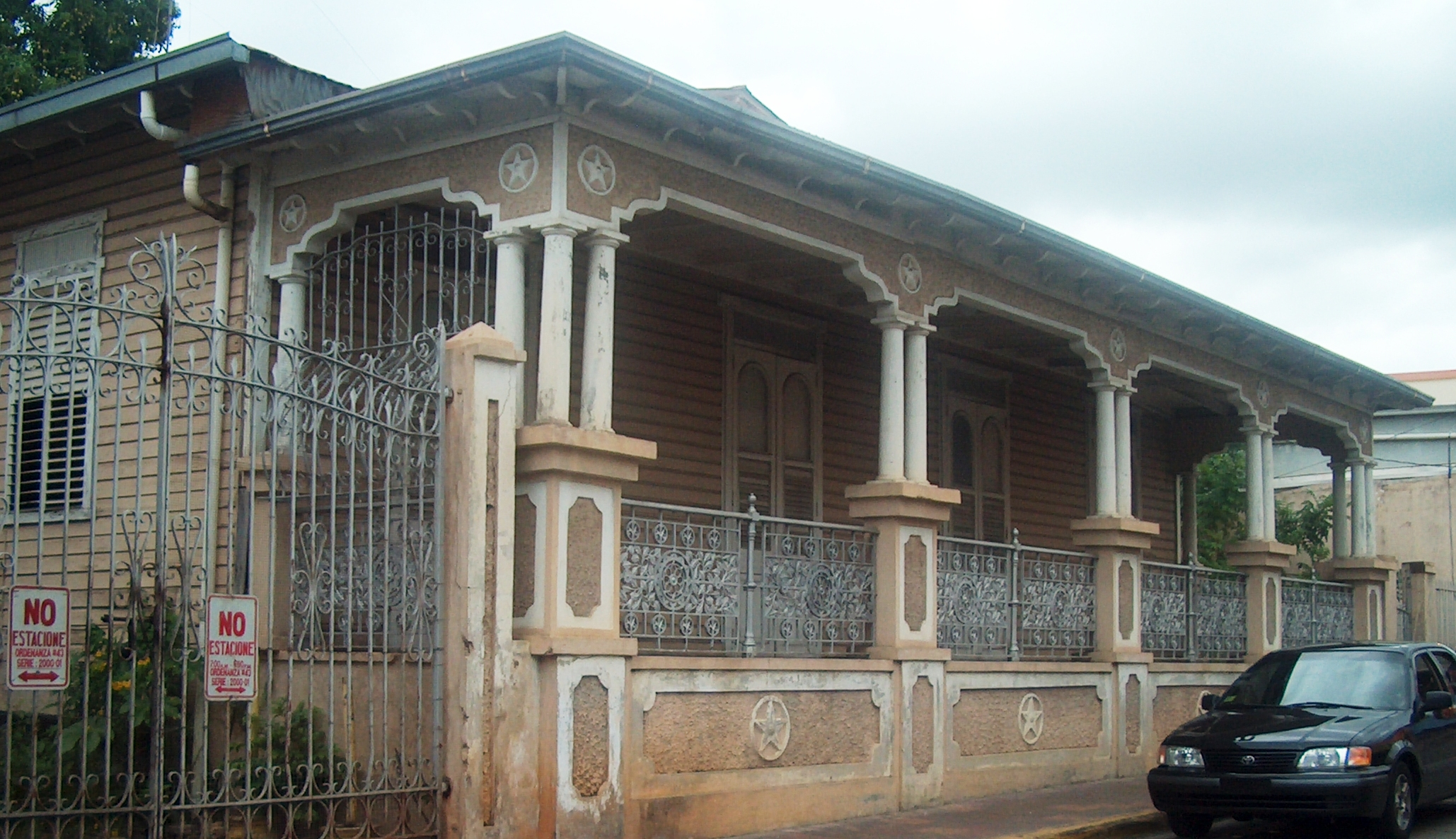 The Casa de los Cinco Arcos, the house that Ramón Emeterio Betances built in Mayagüez, Puerto Rico in 1865. Betances lived it for close to a year and a half, before he was exiled to Paris. Credits The author took this picture on April 5, 2007.